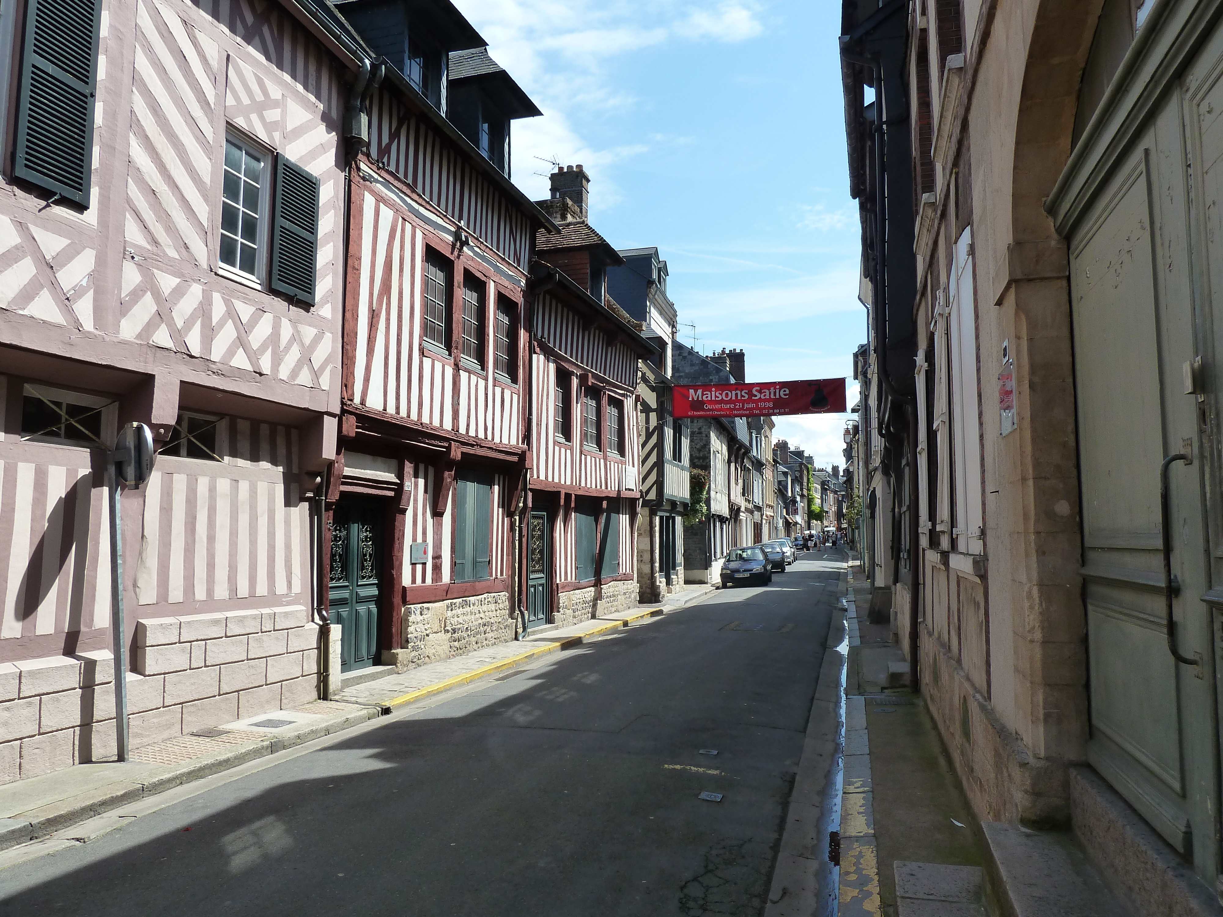 Honfleur, House of Erik Satie, front side